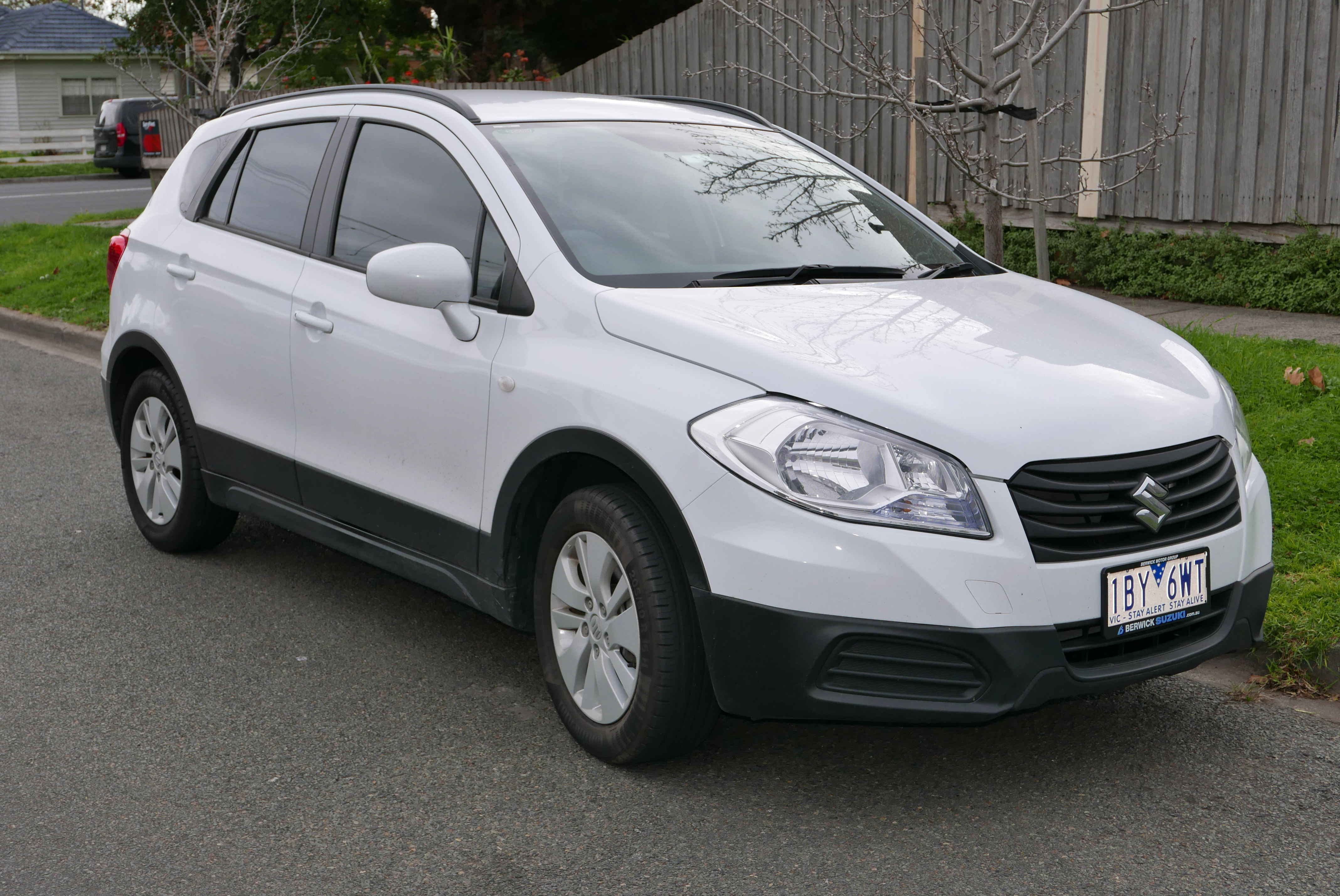 2014 Suzuki SX4 S-Cross (JY) GL wagon. Photographed in Fairfield, Victoria, Australia. Vehicle registration enquiry resultsJurisdictionVictoriaRegistration1BY6WTChassis codeTSMJYA22S00122345Engine codeM16A1780552Compliance date2014-01Year of manufacture2014